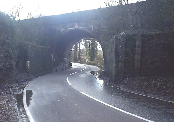 The Skew Bridge near the Ouse Valley Viaduct on the London to Brighton line was to form the start of this railway. Cashpot 10:54, 16 August 2007 (UTC)